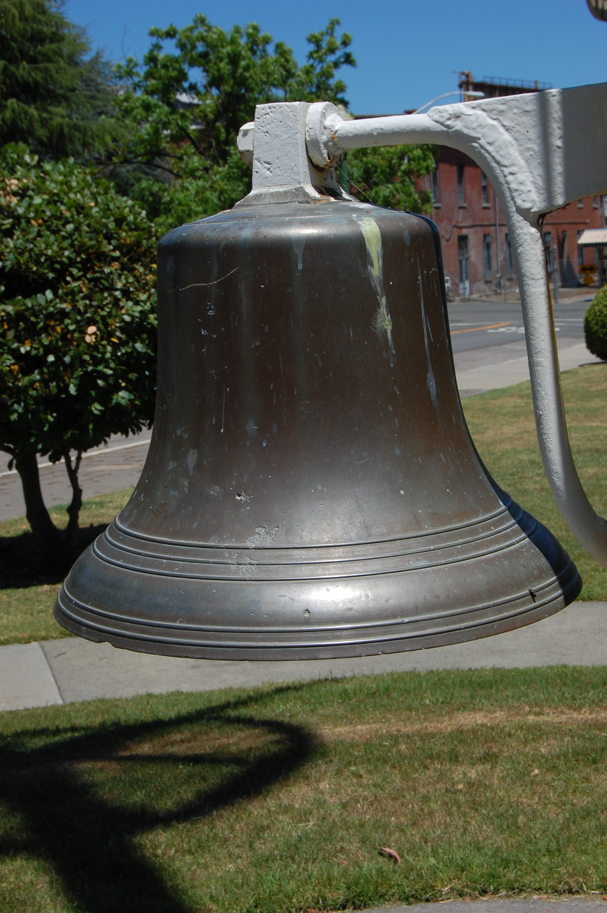 USS Wachusett bell. Mare Island Naval Shipyard. Vallejo, California, USA